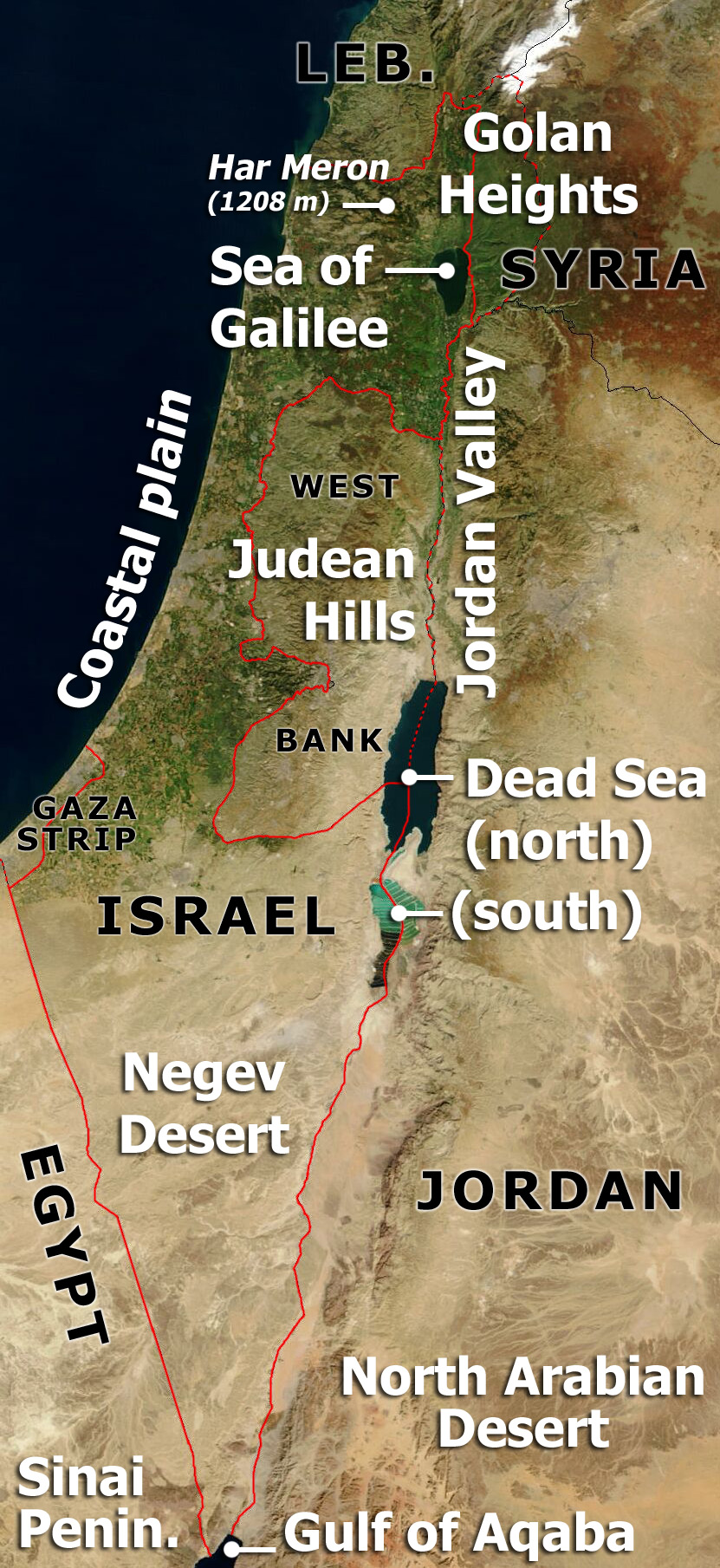 Annotated satellite image of Israel, the Palestinian territories and western Jordan, highlighting principal geographical features. Based on Image:Satellite image of Israel in January 2003.jpg If anyone wants to adapt this for a different language, please contact me (ChrisO) - I can send the original .PSD file.